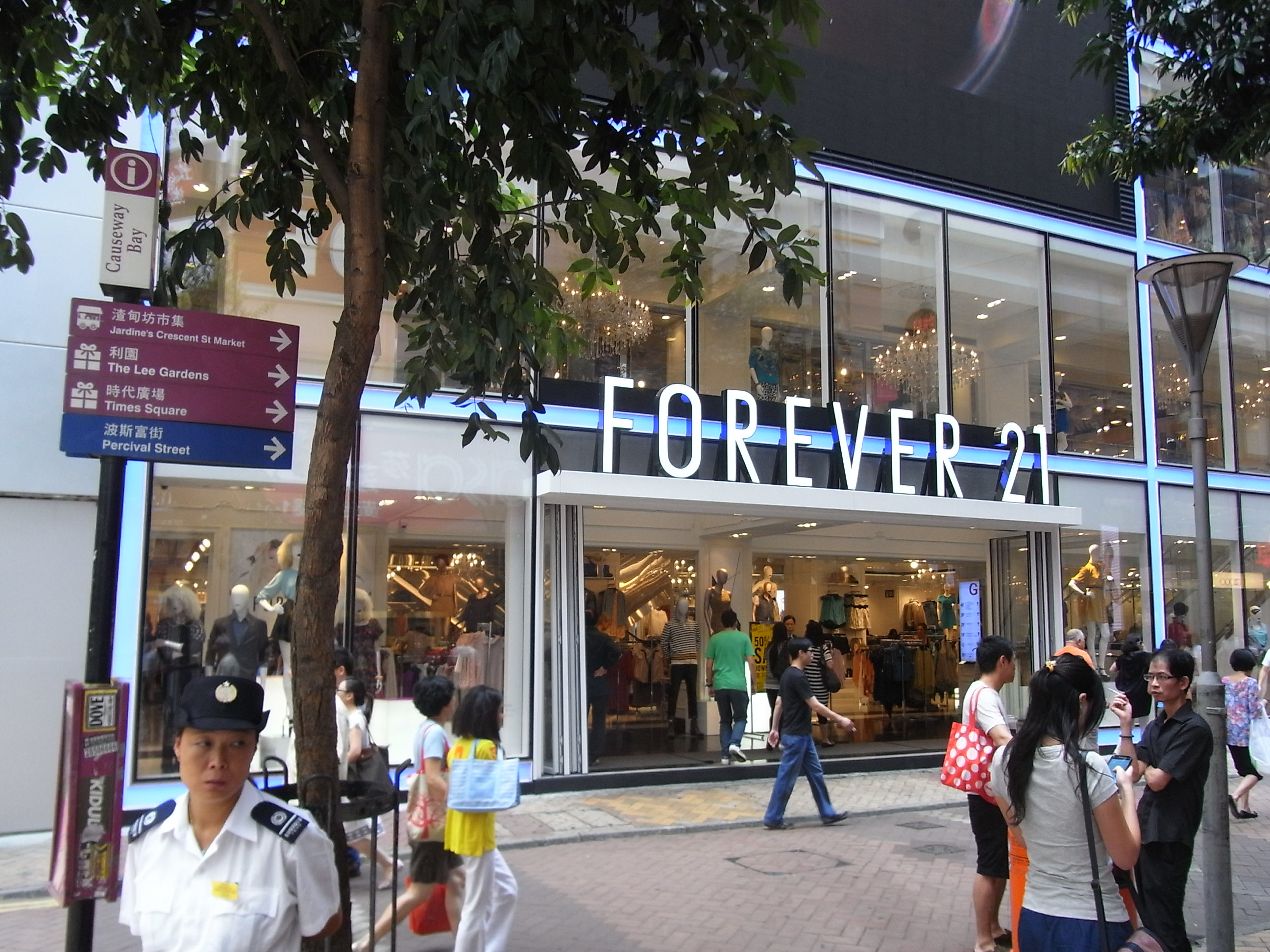 銅鑼灣渣甸坊 京華中心 FOREVER 21 clothing shop, Capitol Centre, Jardine's Crescent, Causeway Bay, Hong Kong